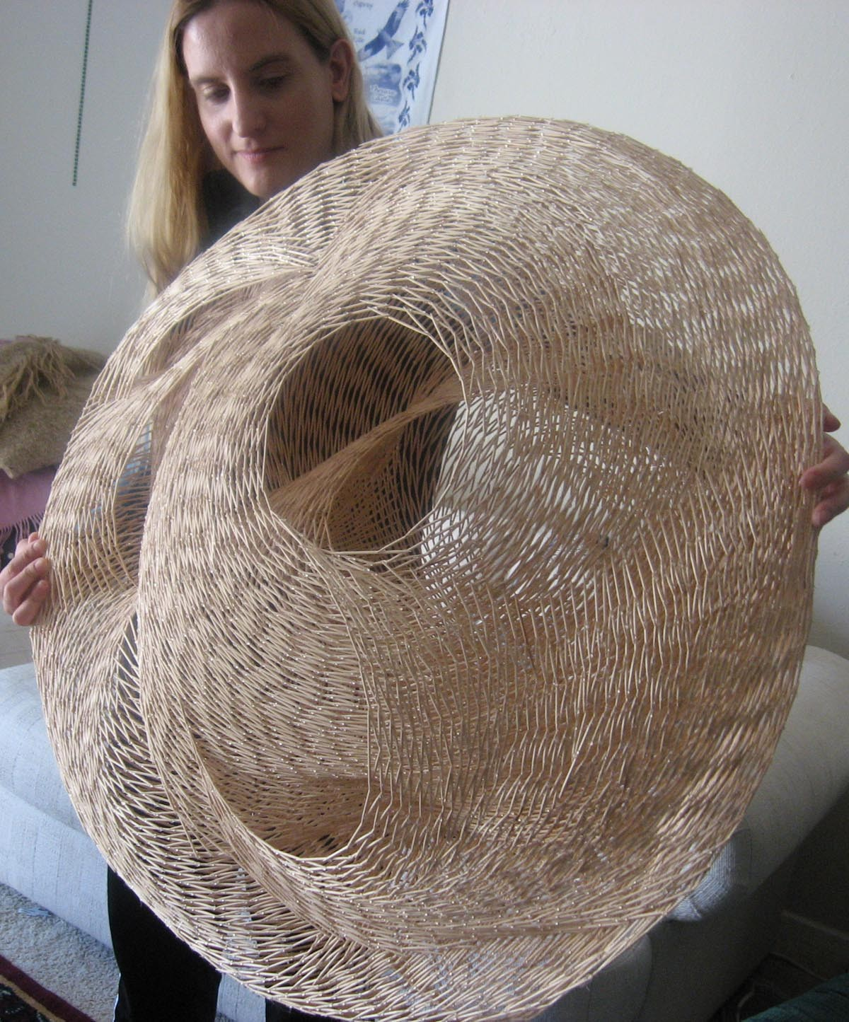 My Sculpture and Myself